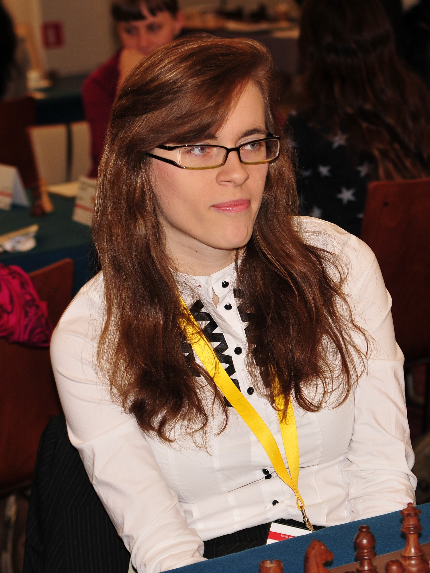 WGM Marta Bartel, European Chess Team Championship Warsaw 2013